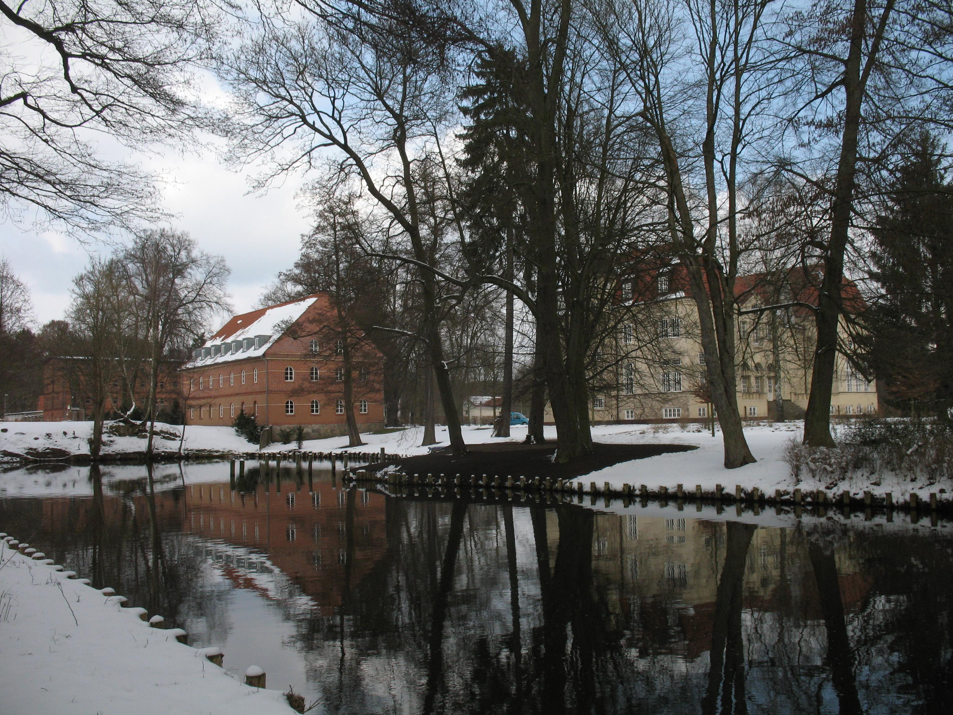 Former granary and manor in Neuruppin-Neumühle in Brandenburg, Germany